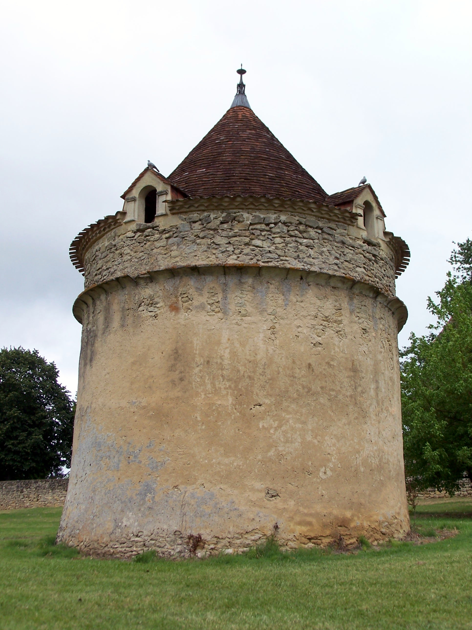 Dovecote tower of the castle of Lavison in Loubens (Gironde, France)